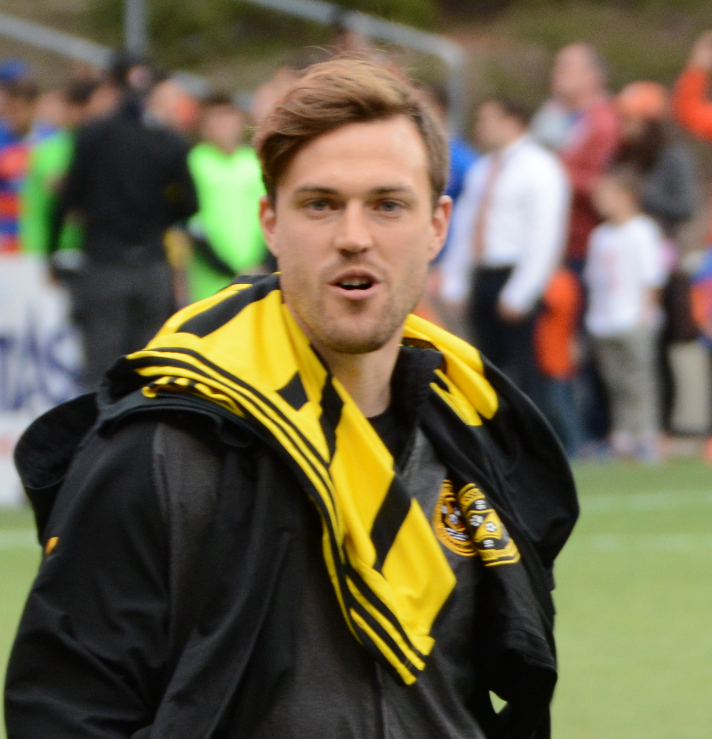 Taken during a USL regular season match between FC Cincinnati and Pittsburgh Riverhounds at Nippert Stadium in Cincinnati, USA on April 21, 2018.